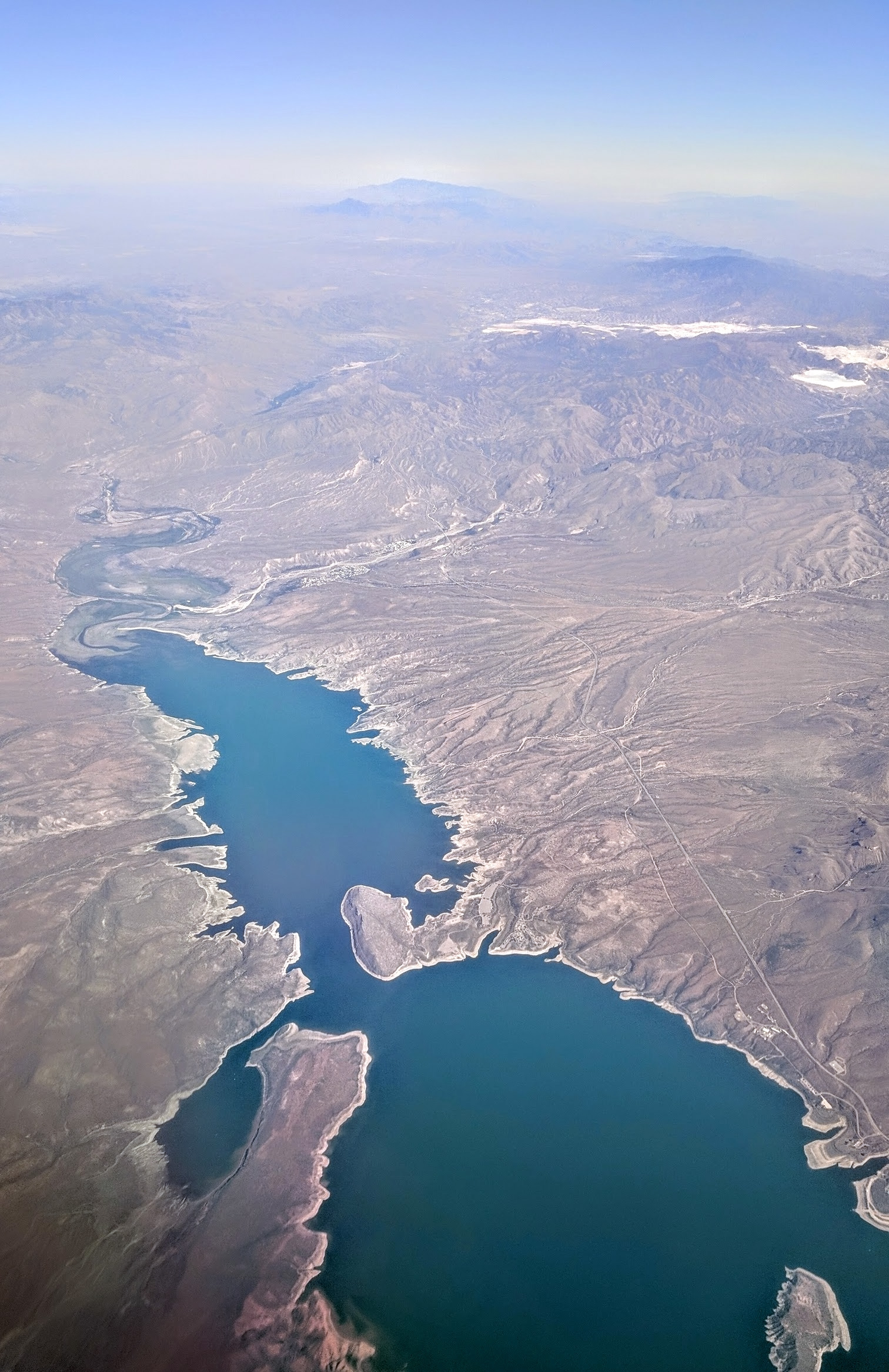 Aerial view of Theodore Roosevelt Lake, a part of the Salt River Project, on the Salt River upstream of Phoenix